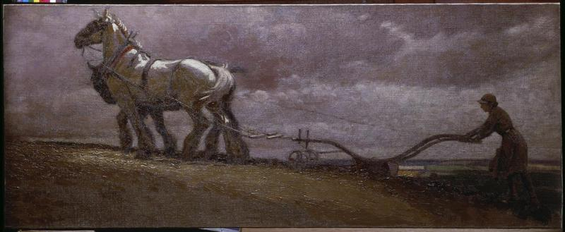 A Land Girl Ploughing image: A scene showing two grey horses harnessed to a plough being driven by a Land Girl, moving from right to left of the composition. Beyond the girl is a view of the distant countryside. A storm is brewing in the grey sky above their heads.